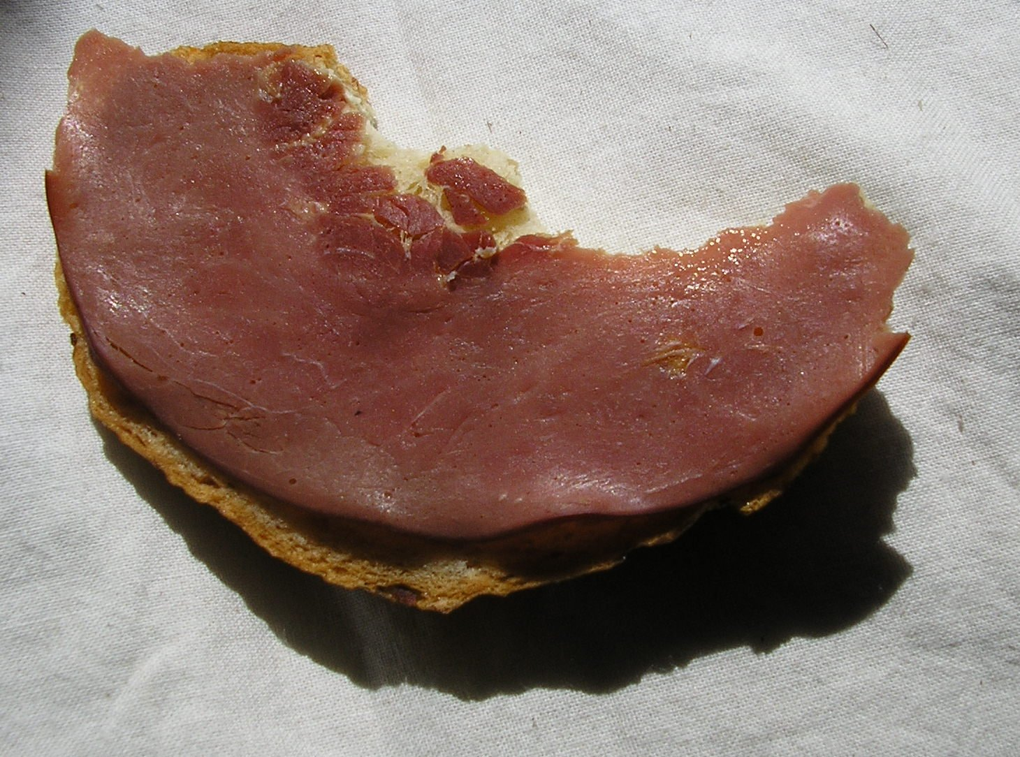 Smoked and salted horse meat on a sandwich. Photographed by myself in 2005.